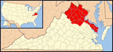 Map of the Catholic diocese of Arlington in the USA (Virginia).